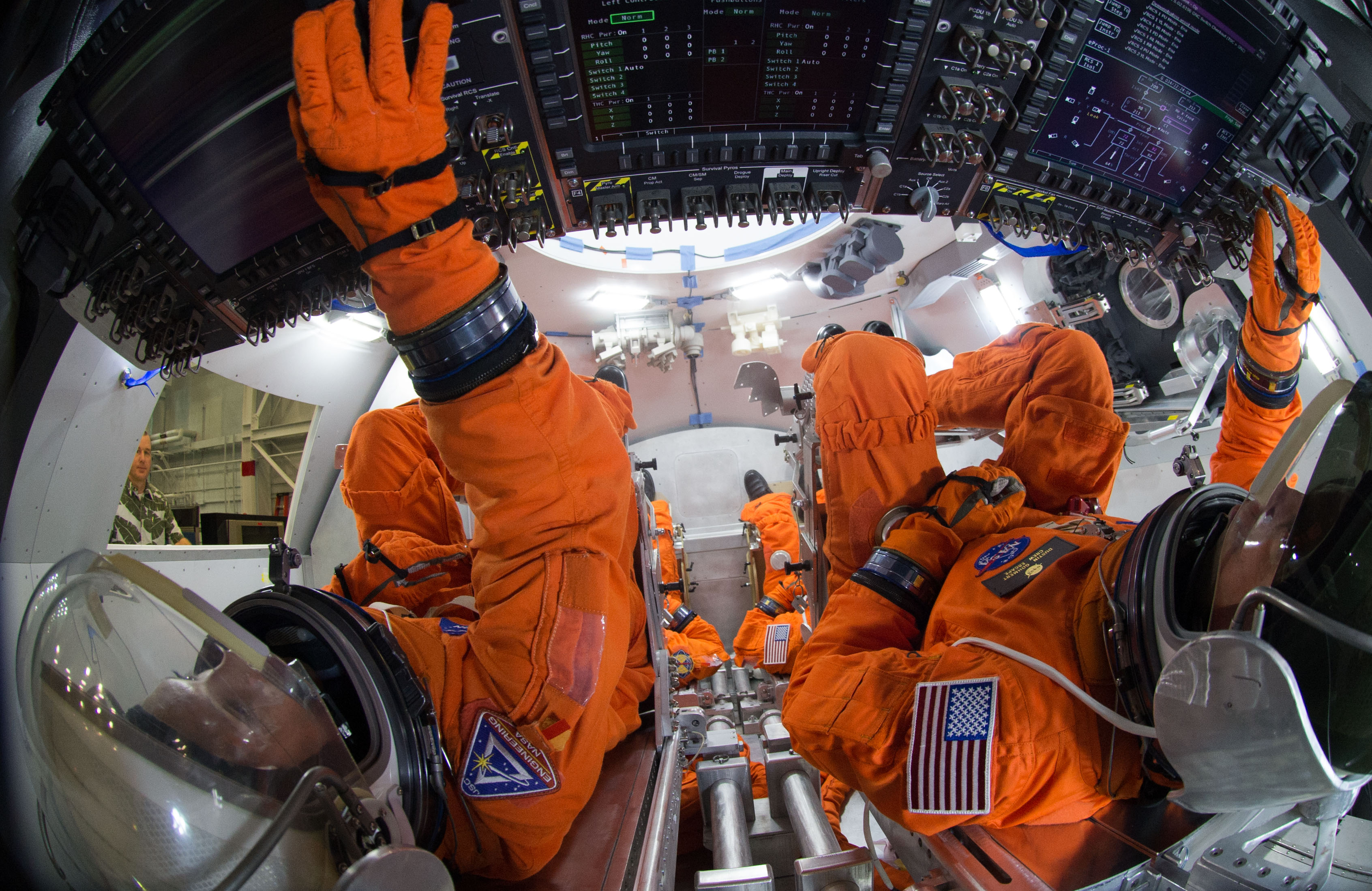 Spacesuit engineers demonstrate how four crew members would be arranged for launch inside the Orion spacecraft, using a mockup of the vehicle at Johnson Space Center.